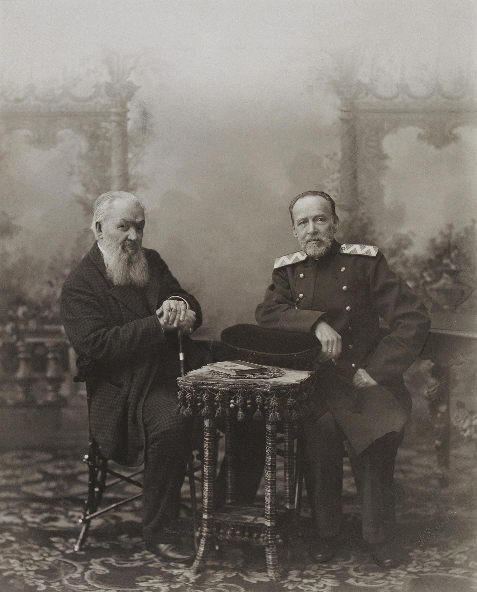 Shubinsky, Sergey Nikolayevich